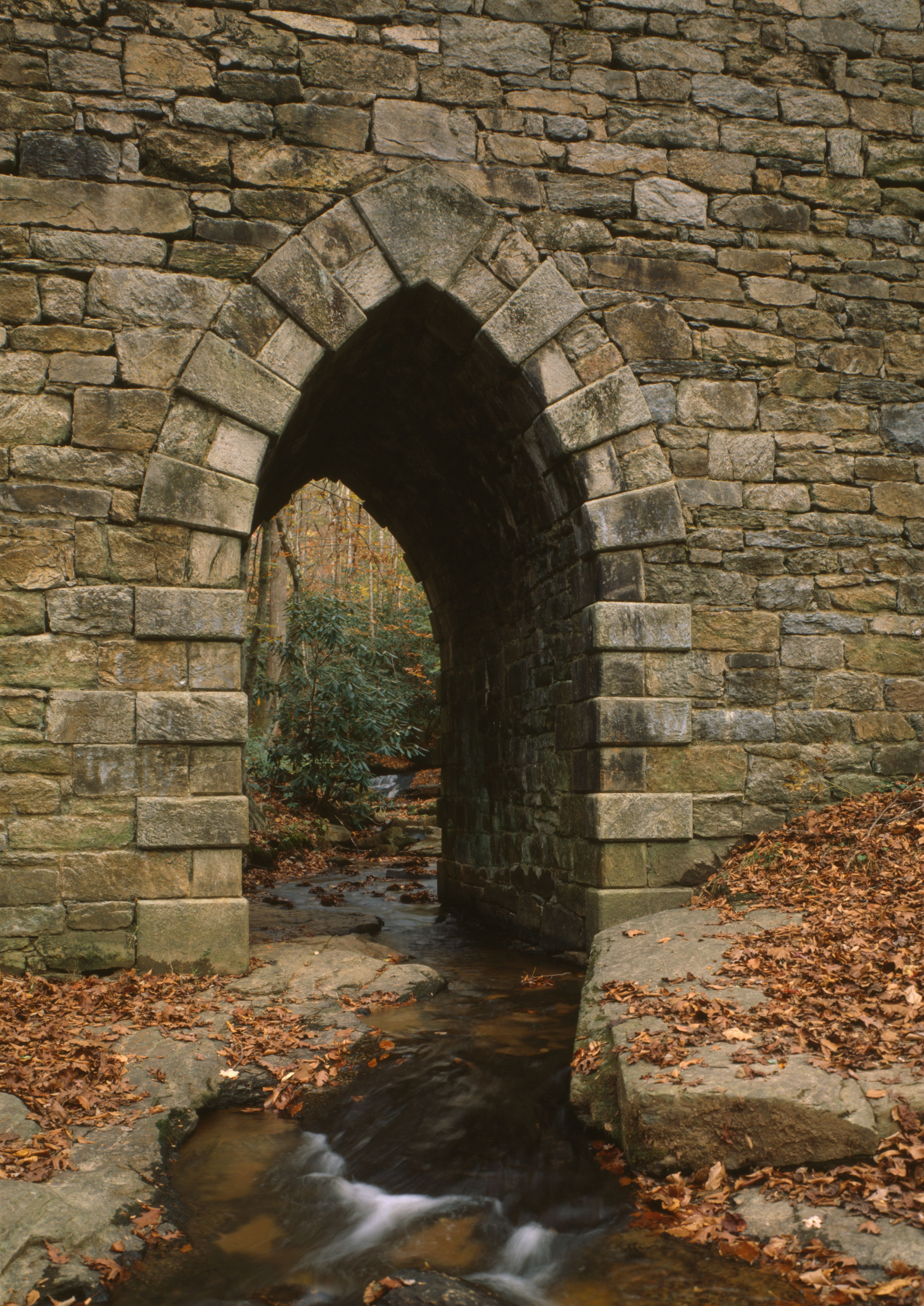 Poinsett Bridge, SC Route 42, 2 miles Northwest of Route 11, 2.5 miles East of SC Route 25, Tigerville vicinity (Greenville County, South Carolina).